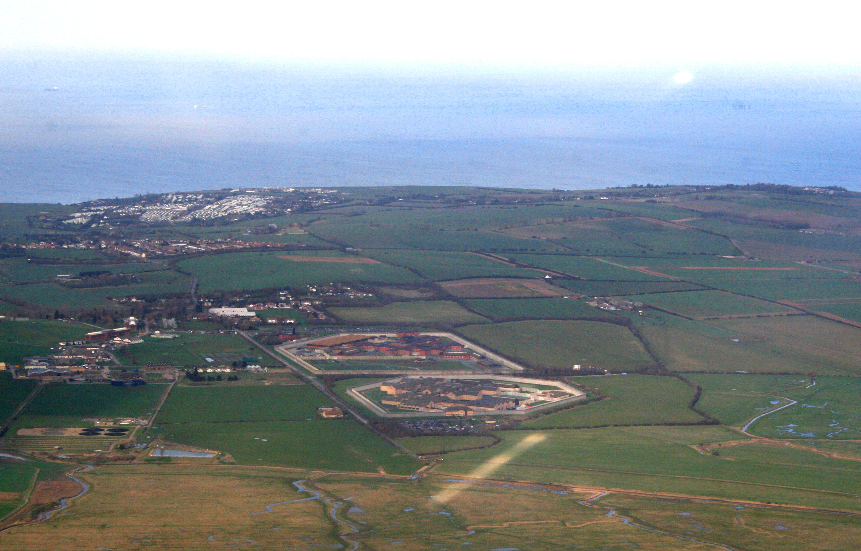 Prison or Prisons on the Isle of Sheppey.TQ985696